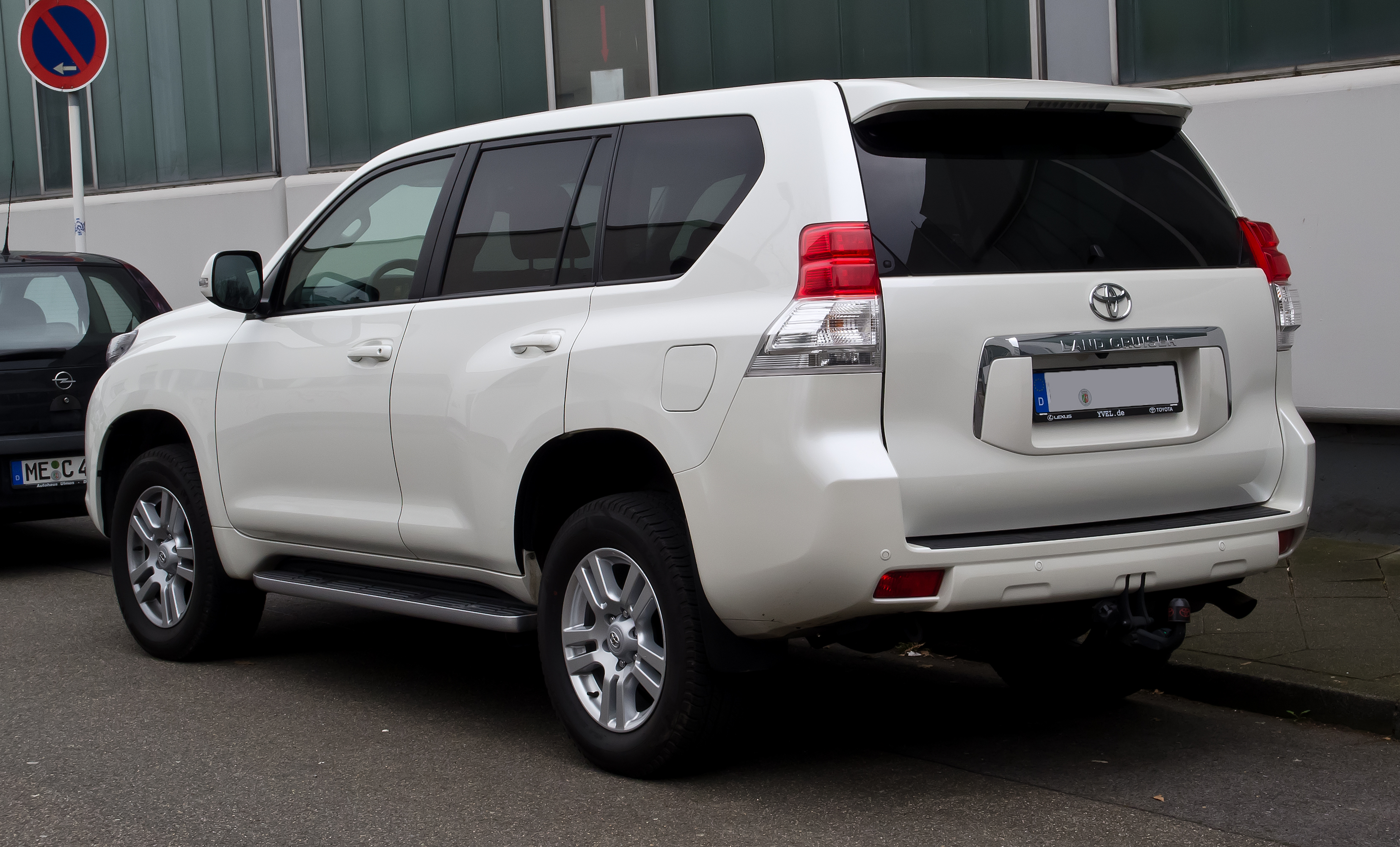 Toyota Land Cruiser 3.0 D-4D Life (J15)